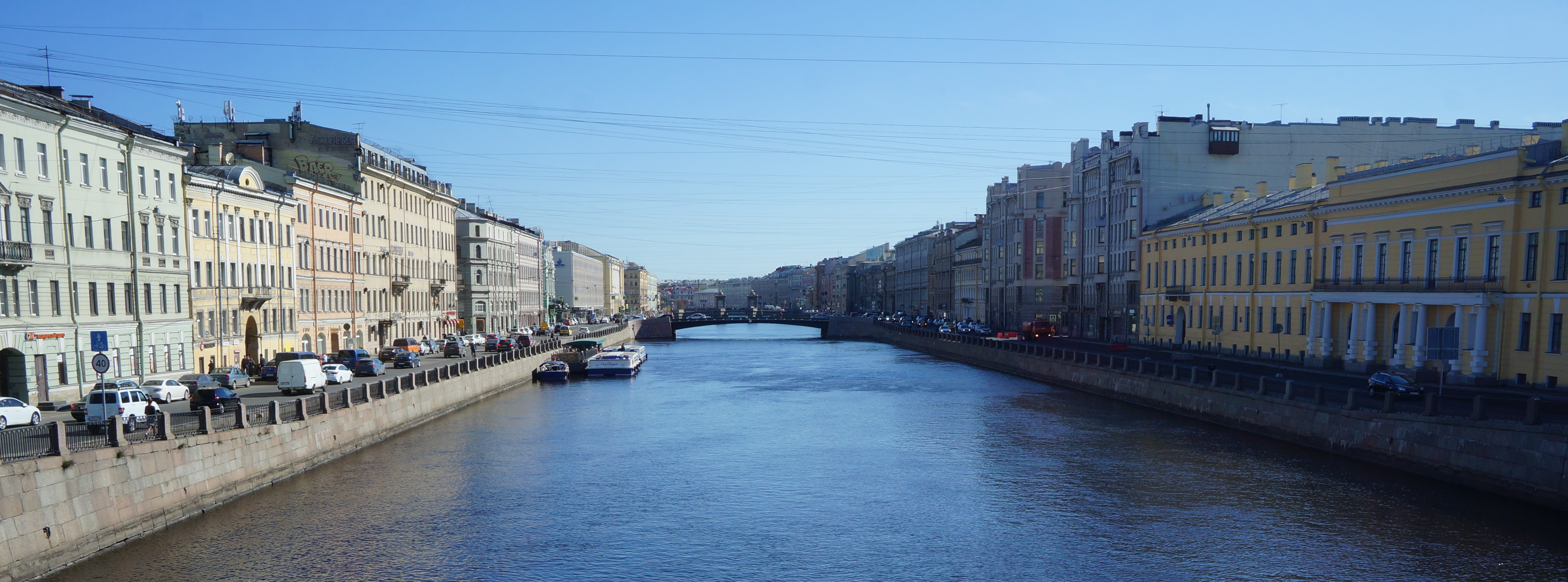 Lomonosova Bridge in Saint Petersburg